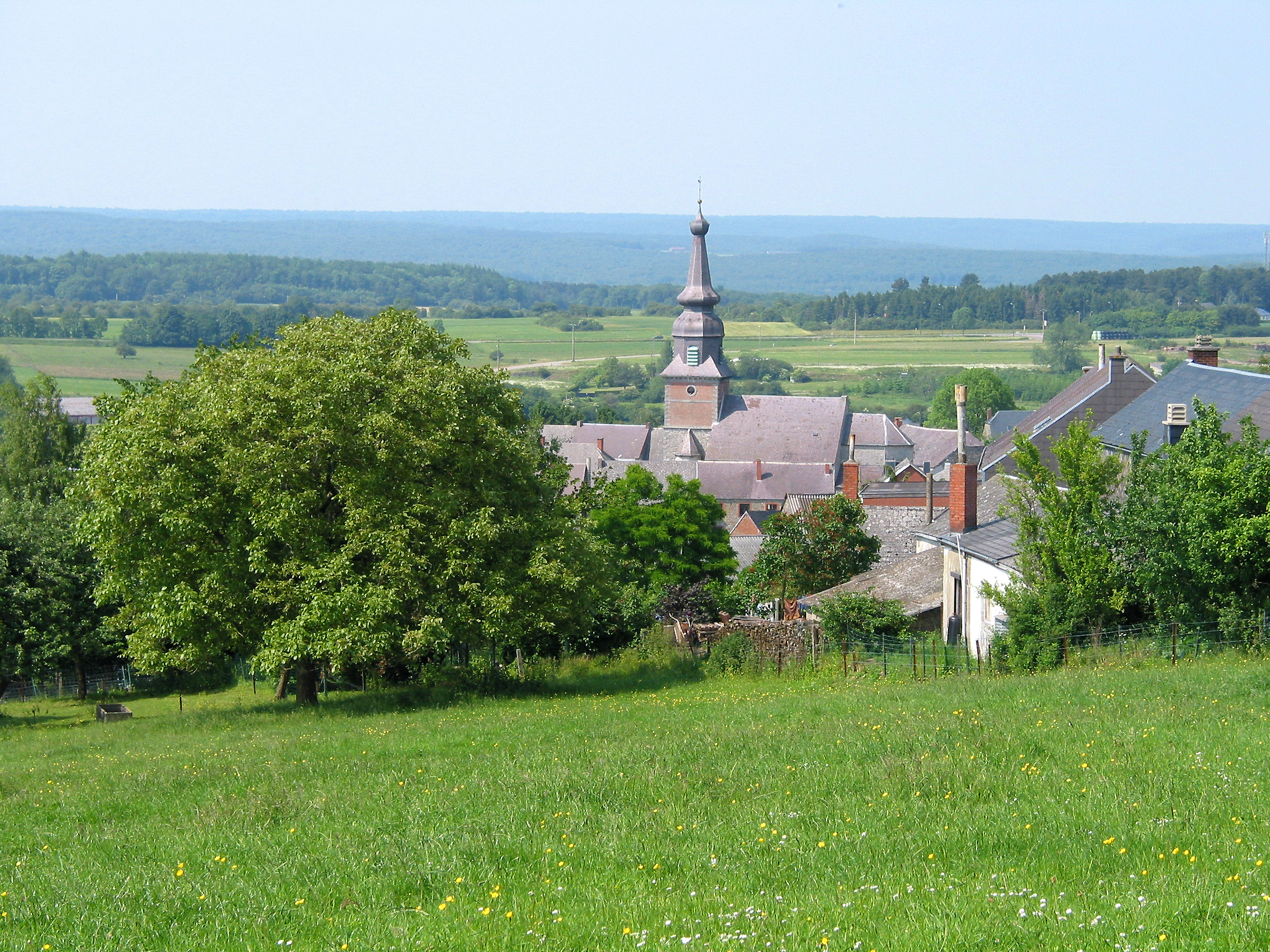 Gonrieux (Belgium), the neighbourhood of the Saint George's church seen from the « Rue d’En Haut ».